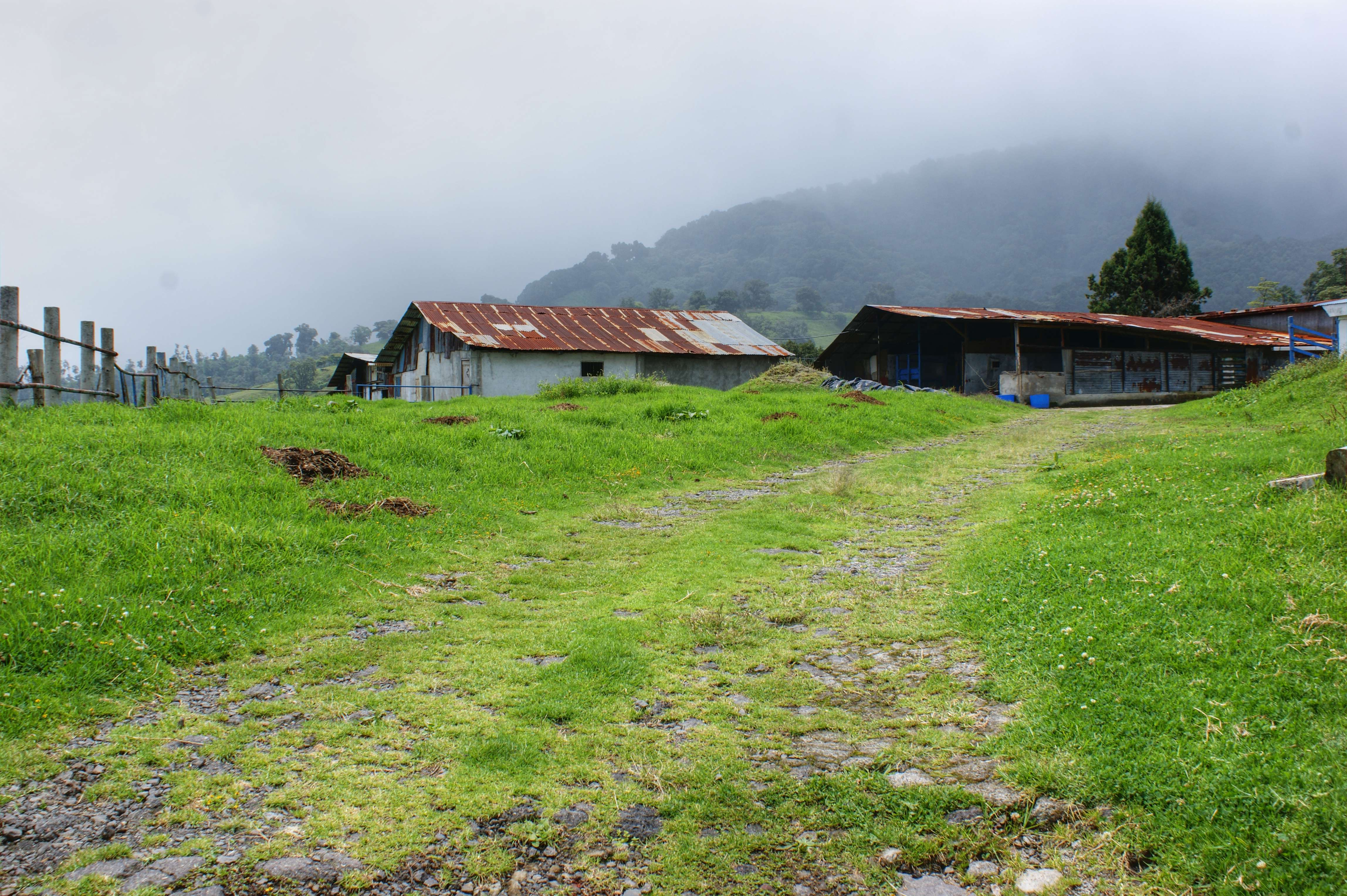 Rancho Redondo landscape